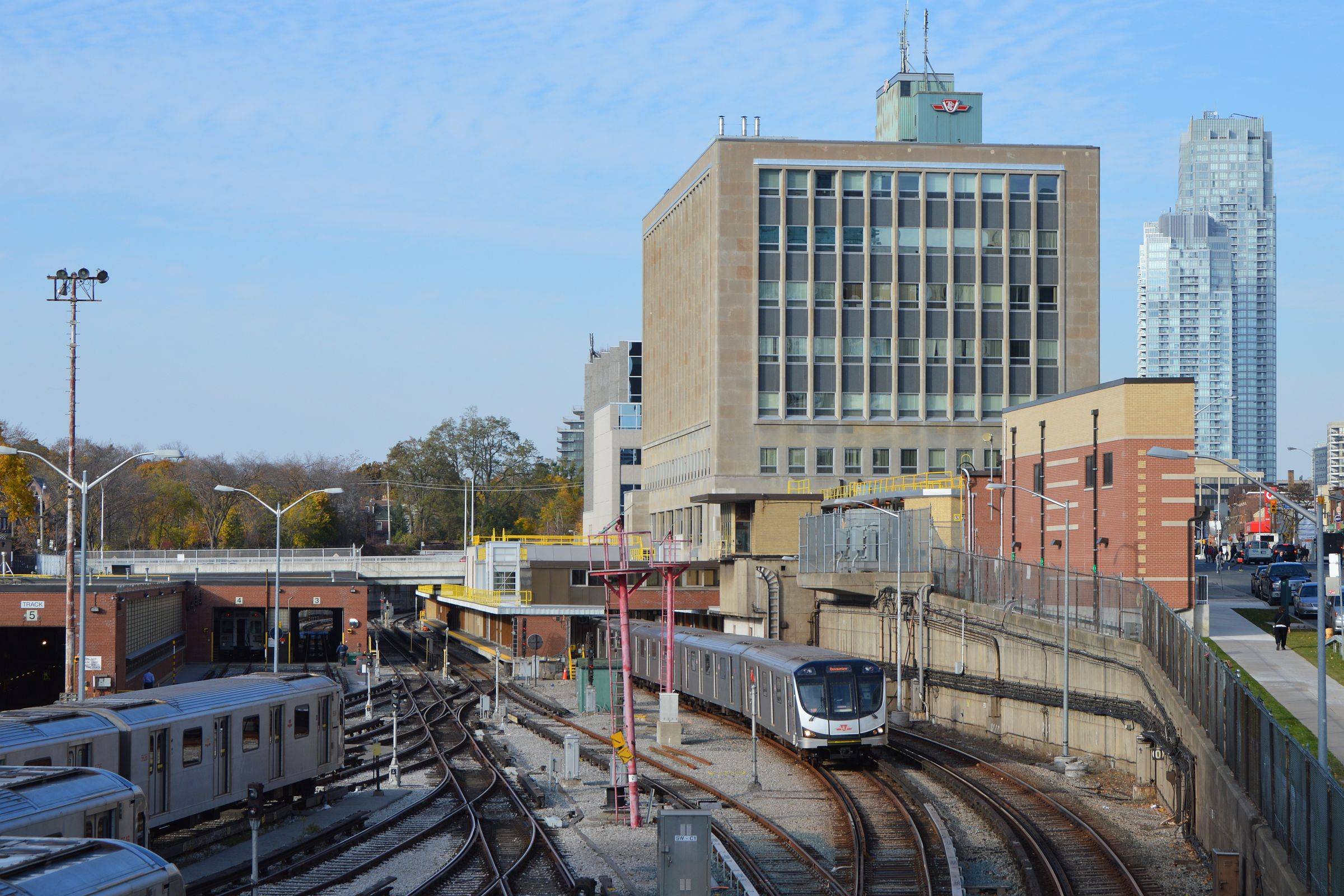 Davisville Yard, Davisville subway station, McBrien Building and a Toronto Rocket train departing southbound